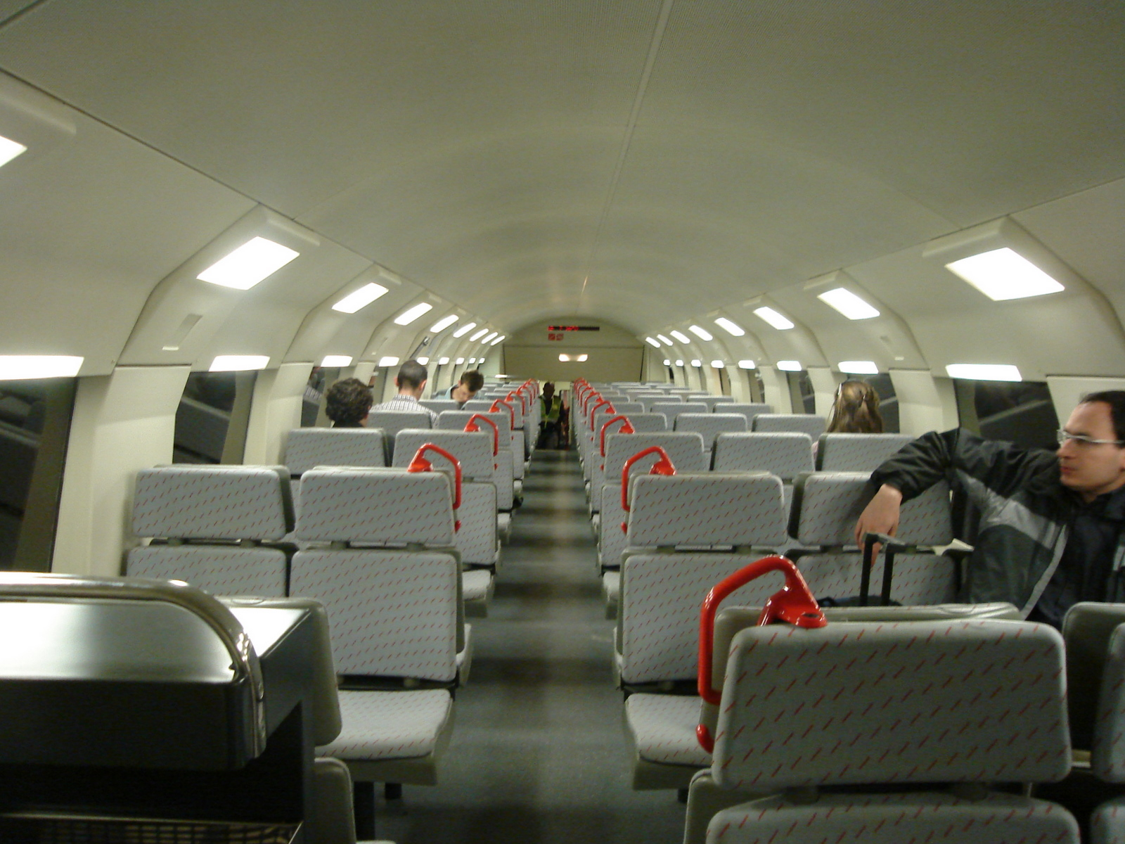 Spanish train class 450, upper deck, of the Cercanías de Madrid